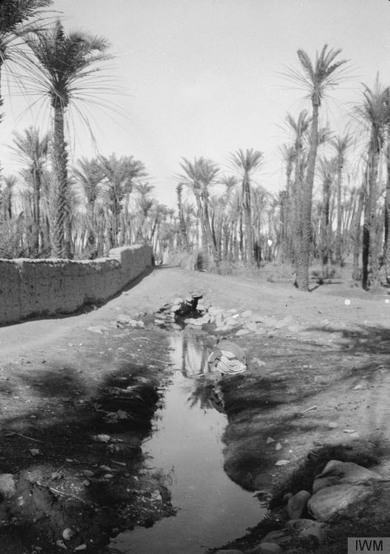 T E Lawrence and the Arab Revolt 1916 - 1918 Bruka irrigation canal, in the Yenbo area.